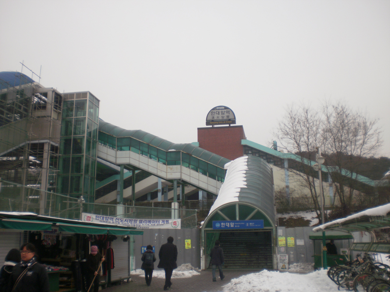 Outside of Hanyang Univ. at Ansan Station, Korea.